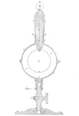 Plate I, Page 9 from Philosophical Transactions 1838 (Detail)